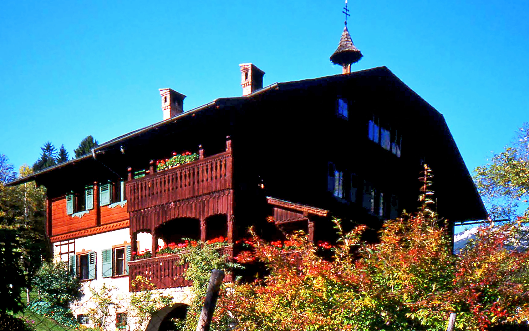 Riegelhof - Prein an der Rax. The Austrian novelist Heimito von Doderer (1896-1966) wrote substantial parts of his work (including "the Strudlhofstiege or Melzer and the depth of the years'), on the Prein located a. d. Rax"Riegelhof", the summer holiday seat of the Doderer family.